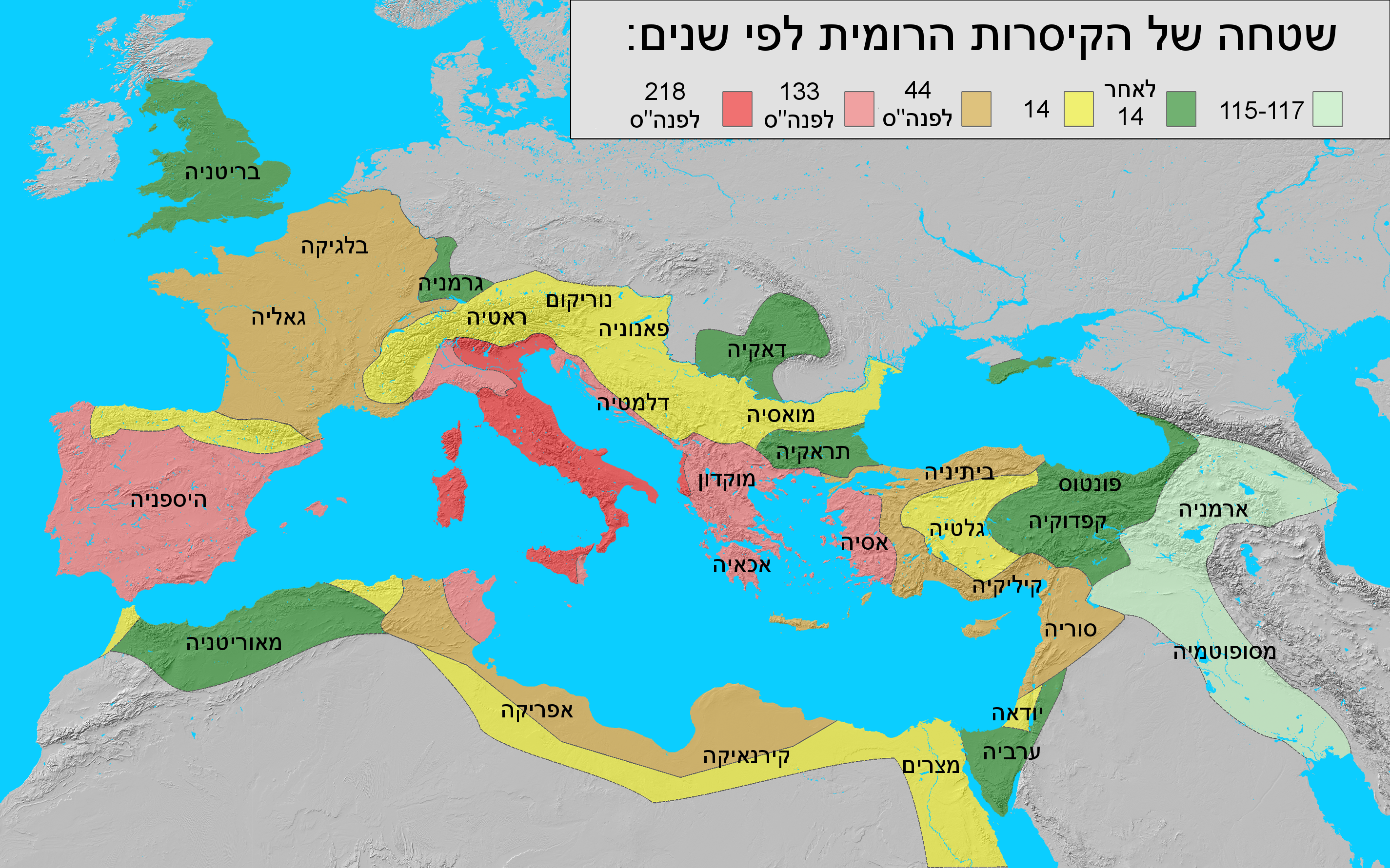 RomanEmpire Phases